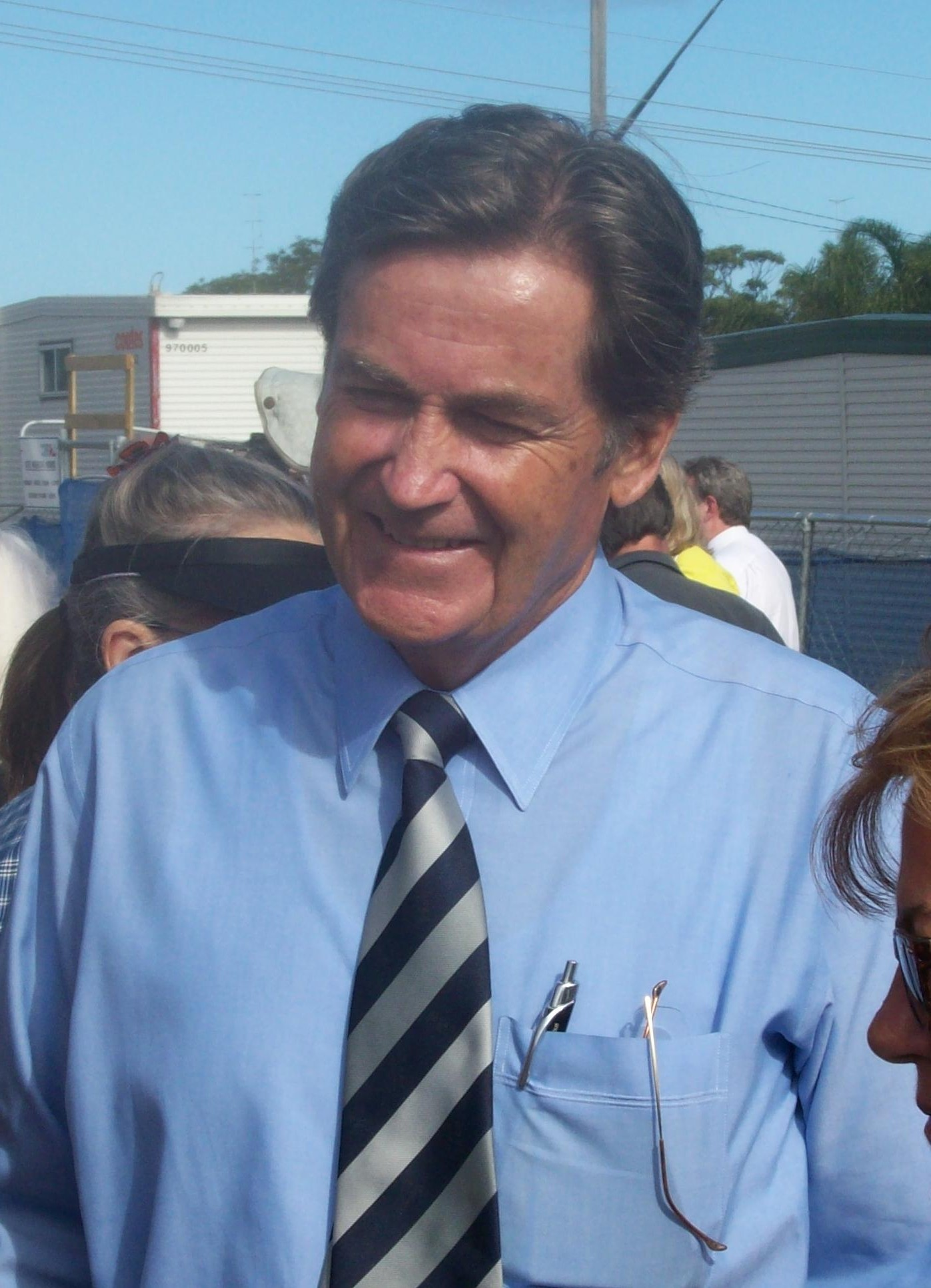 Grant McBride talking to a hostile community member regarding a Government decision at The Entrance.